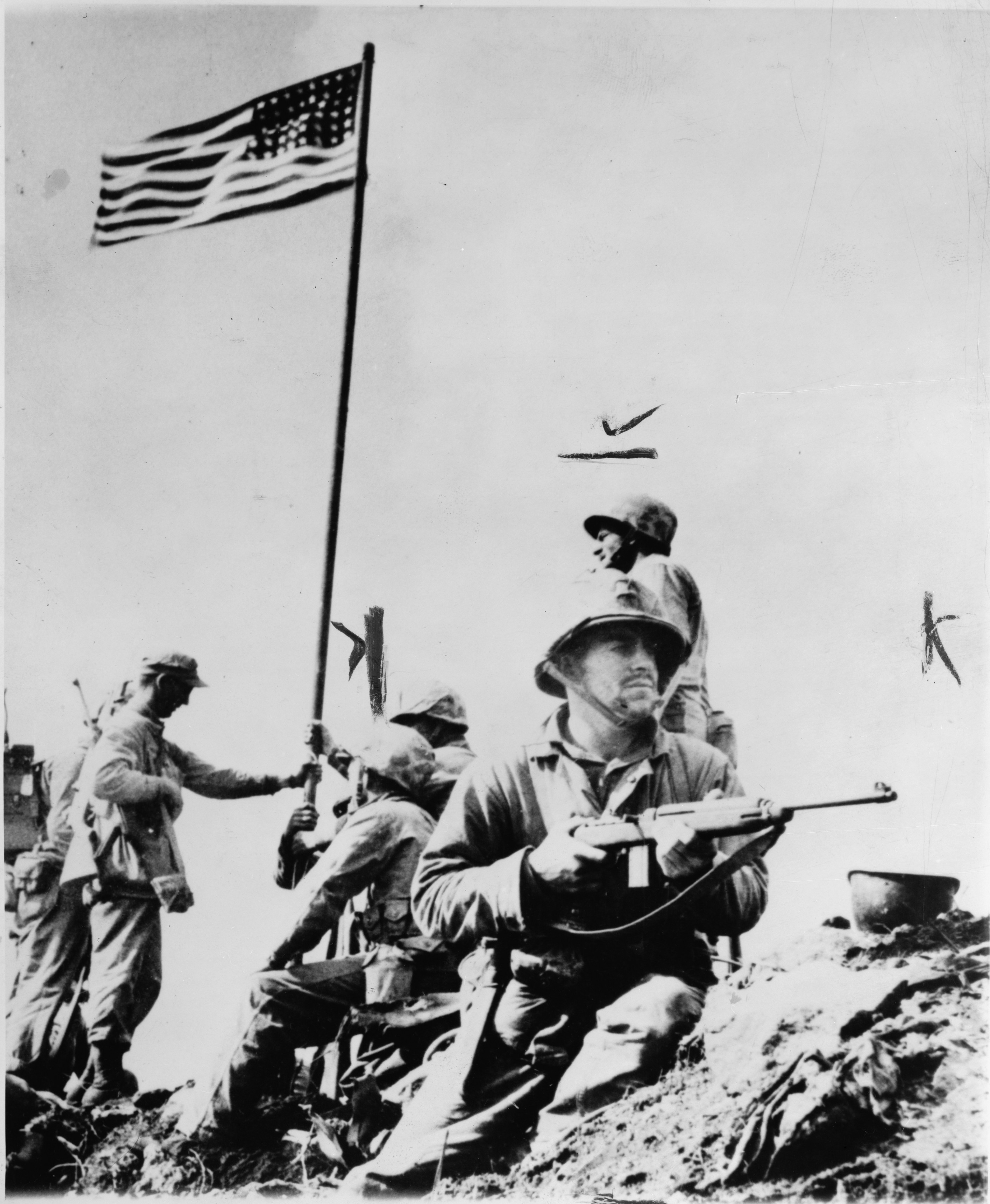 First flag set atop Mt. Suribachi.